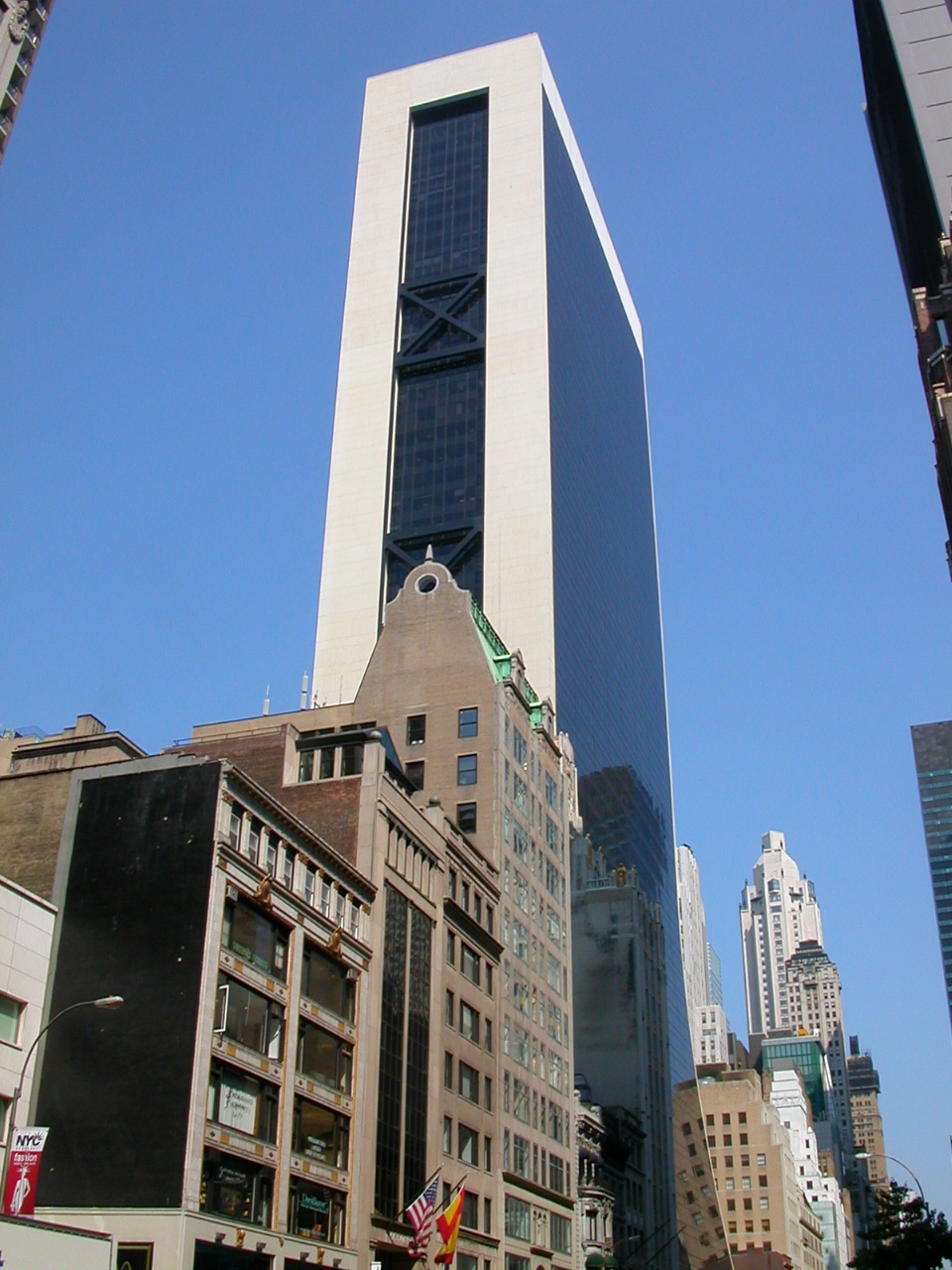 author: Ilya Voytov location: 6th Avenue and 57th Street, Manhattan, New York City, USA subject: Solow Building aka 9 W. 57 Building. See also File:Solow Building.JPG